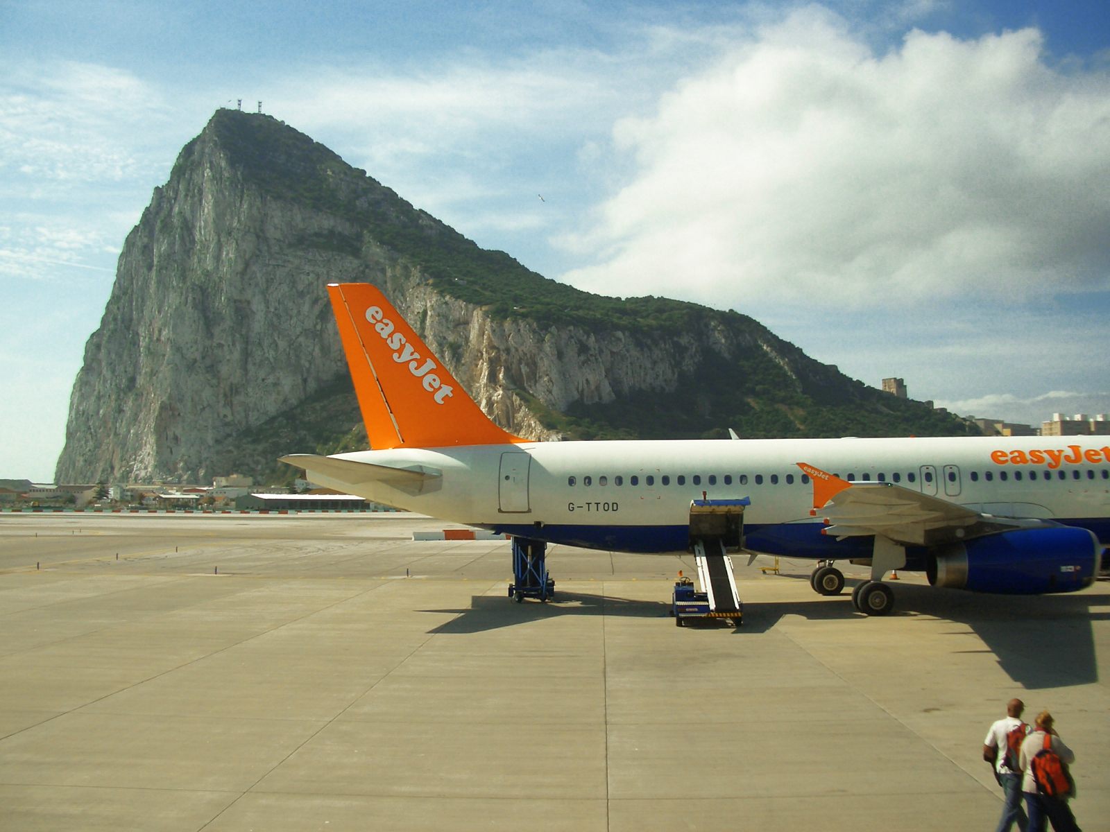 aircraft parked at Gibraltar Airport.